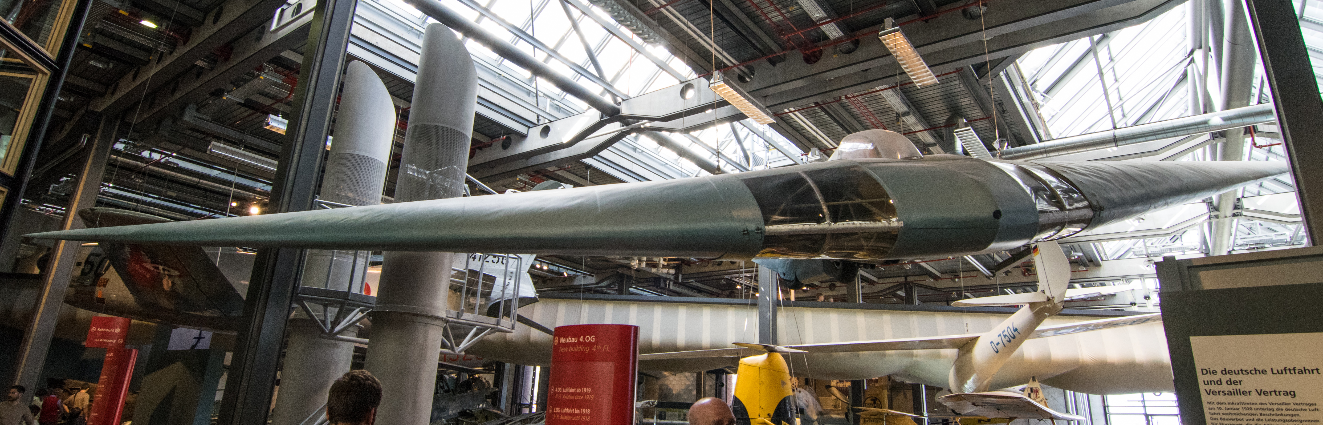 Horten H II Habicht at the Deutsches Technikmuseum Berlin